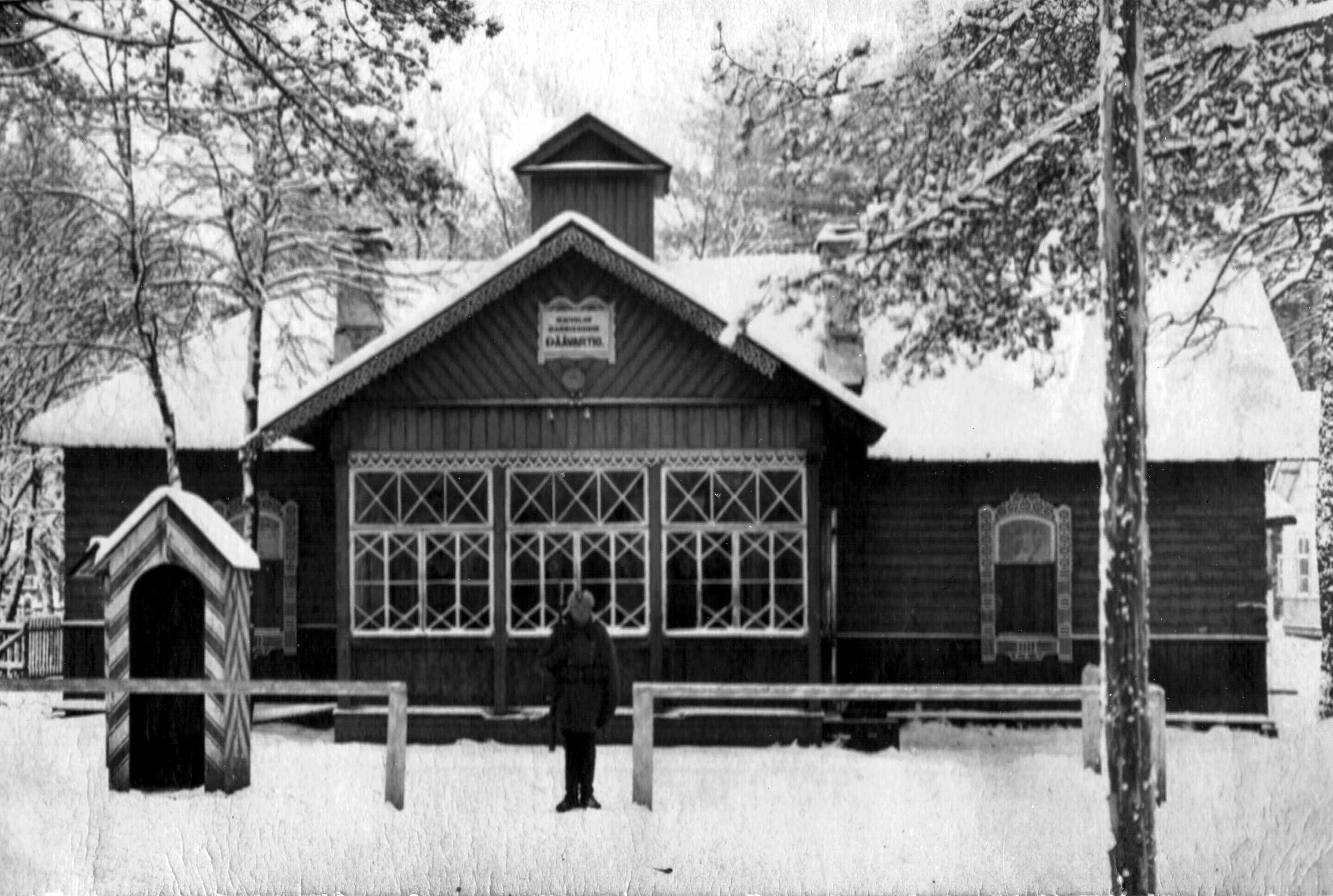 Main entrance of the Raivola garrison in Karelian Isthmus, near Terijoki, Finland, later Russia (village of Рощино)